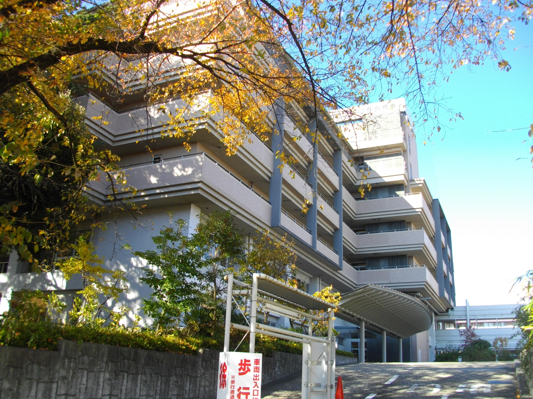 Salvation Army Booth Memorial Hospital (Japan)